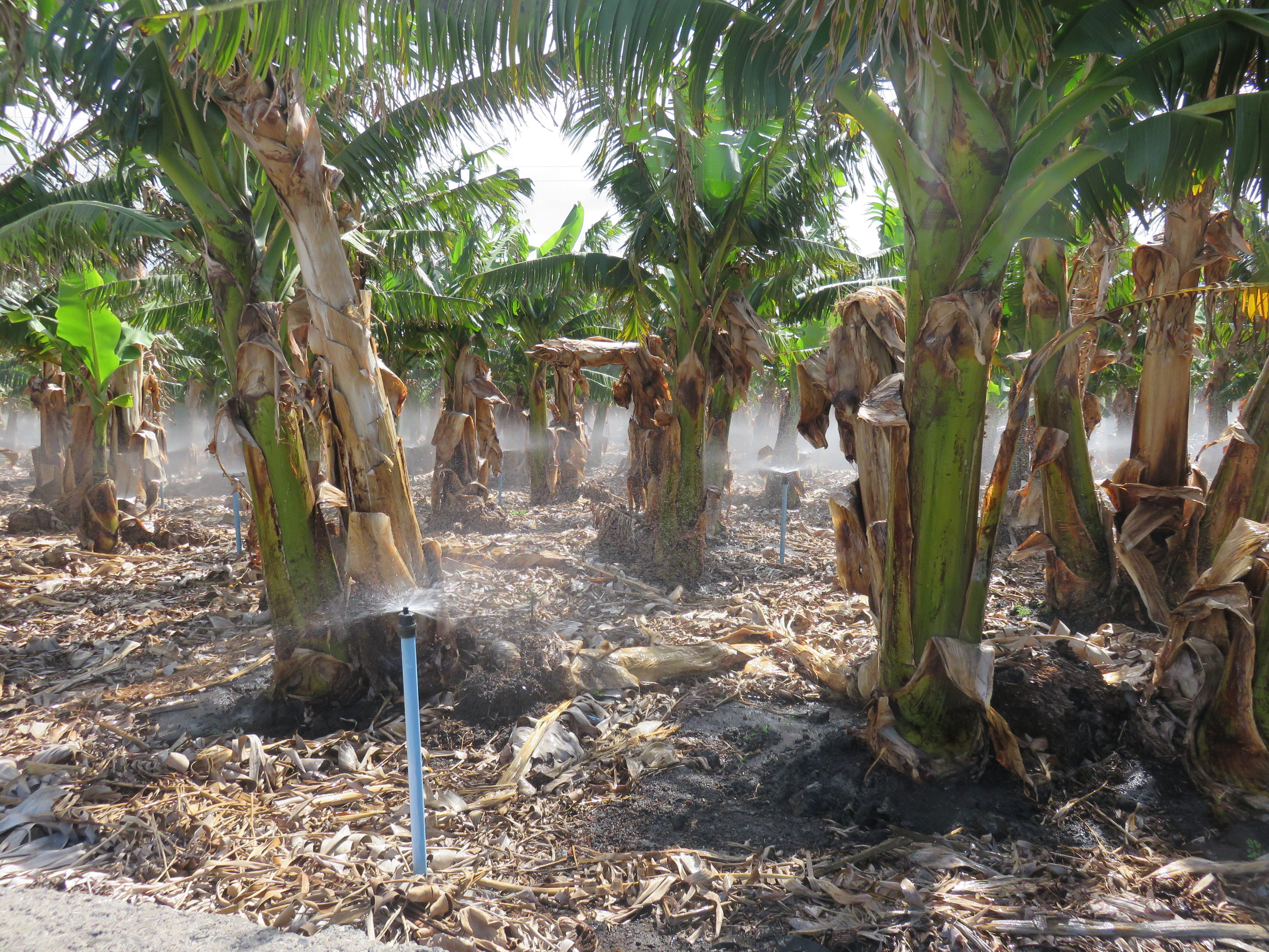 Banana plantation in Tazacorte, spray irrigation